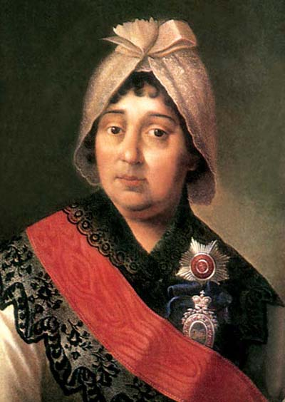 Portrait of Varvara Prozorovsky, Suvorov`s wife